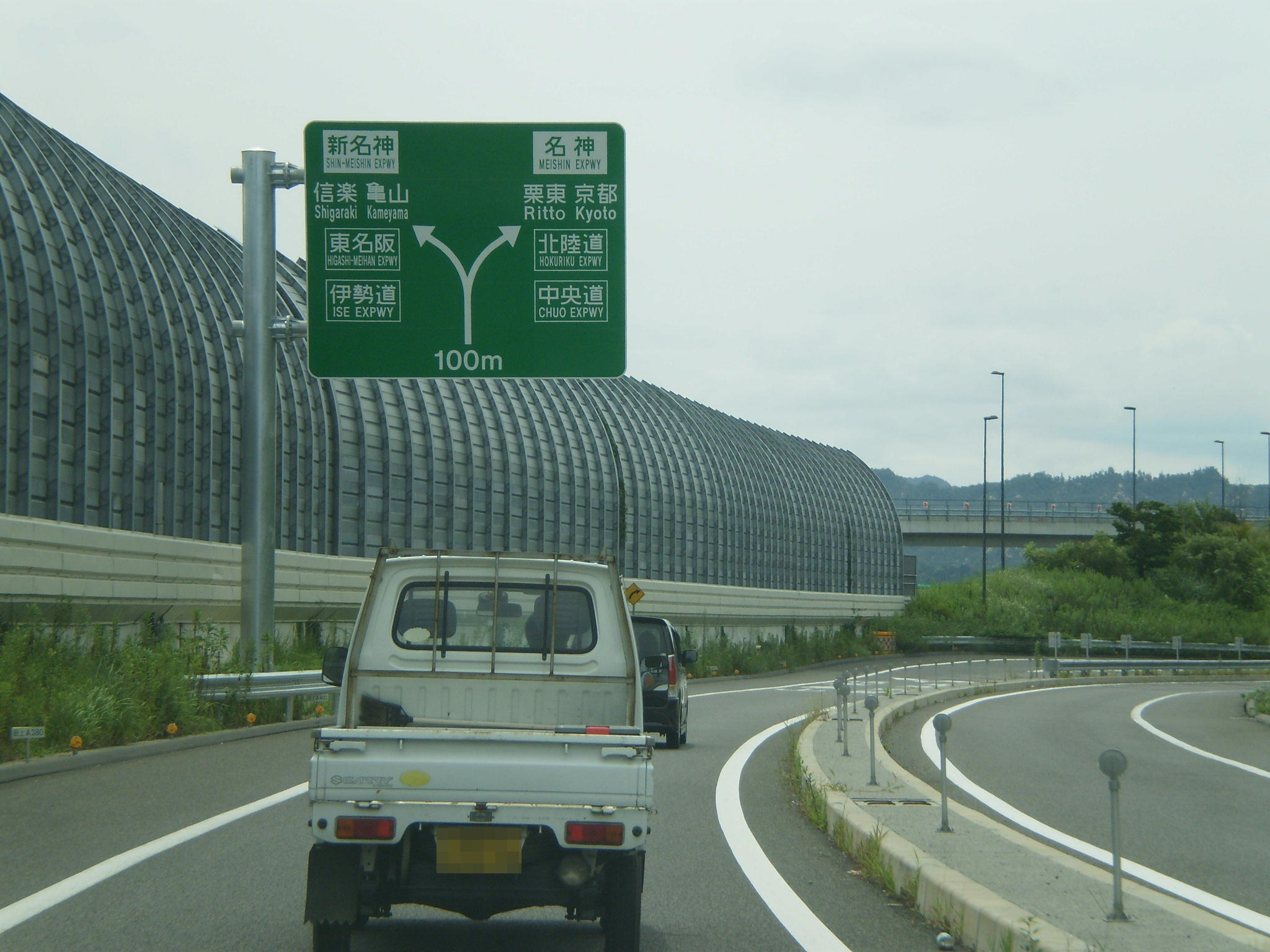 Kusatu-Tanakami interchange of Shin-Meishin Expressway. I took this image at Noji-cho Kusatsu City Shiga Pref., Japan.